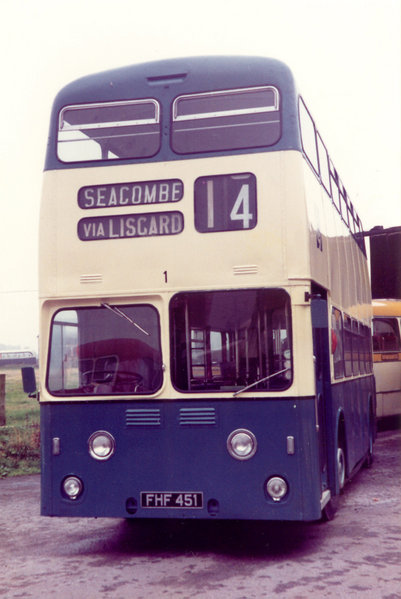 The first production Leyland Atlantean PDR1/1, FHF451, new to Wallasey Corporation 1 in 1958